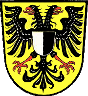 Coat of arms of Friedberg, Hesse